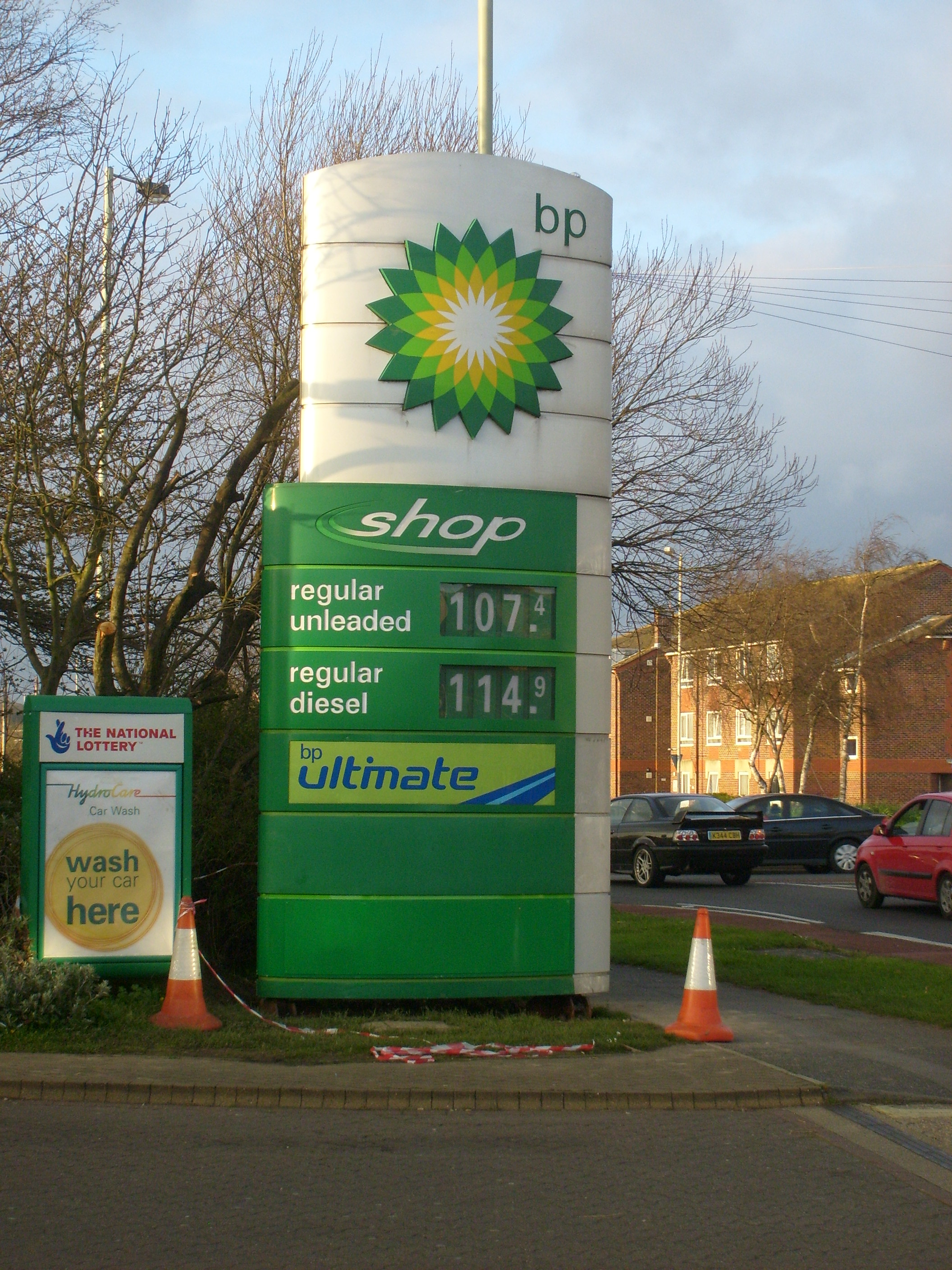 A BP sign outside a BP Garage in Portsmouth, England.